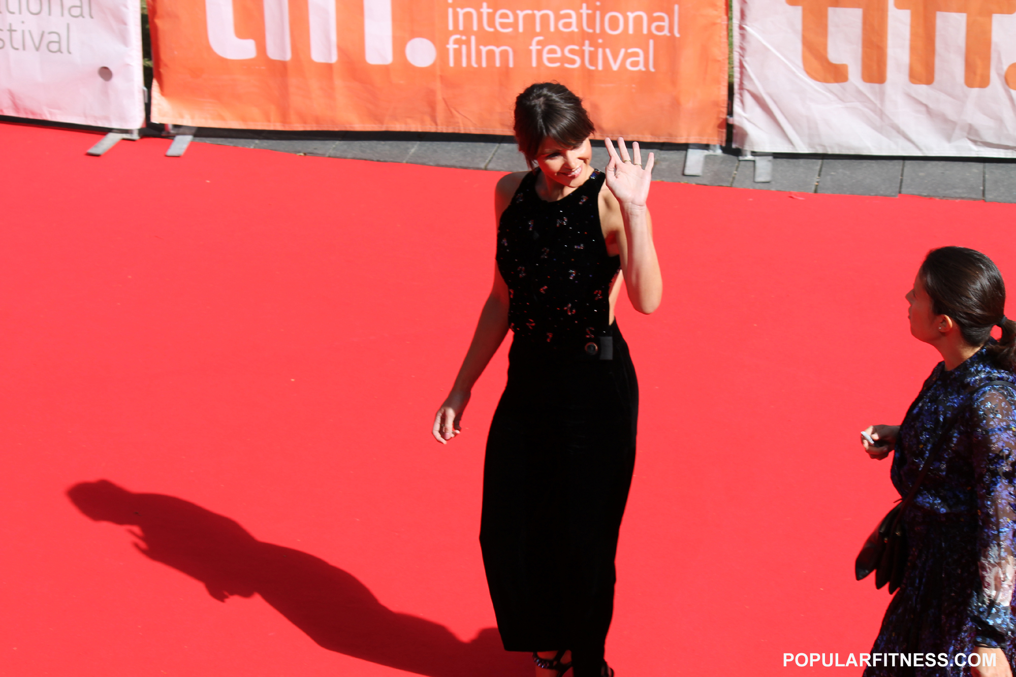 Gemma Arterton at 2016 Toronto International Film Festival on the red carpet on a bright sunny afternoon for the film Their Finest - #TIFF16.